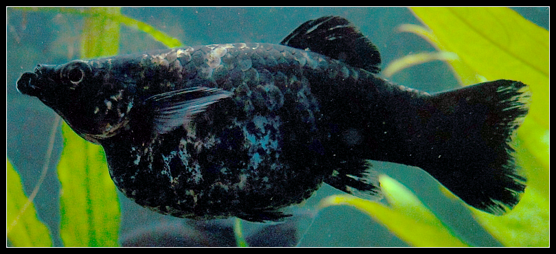 Black Molly